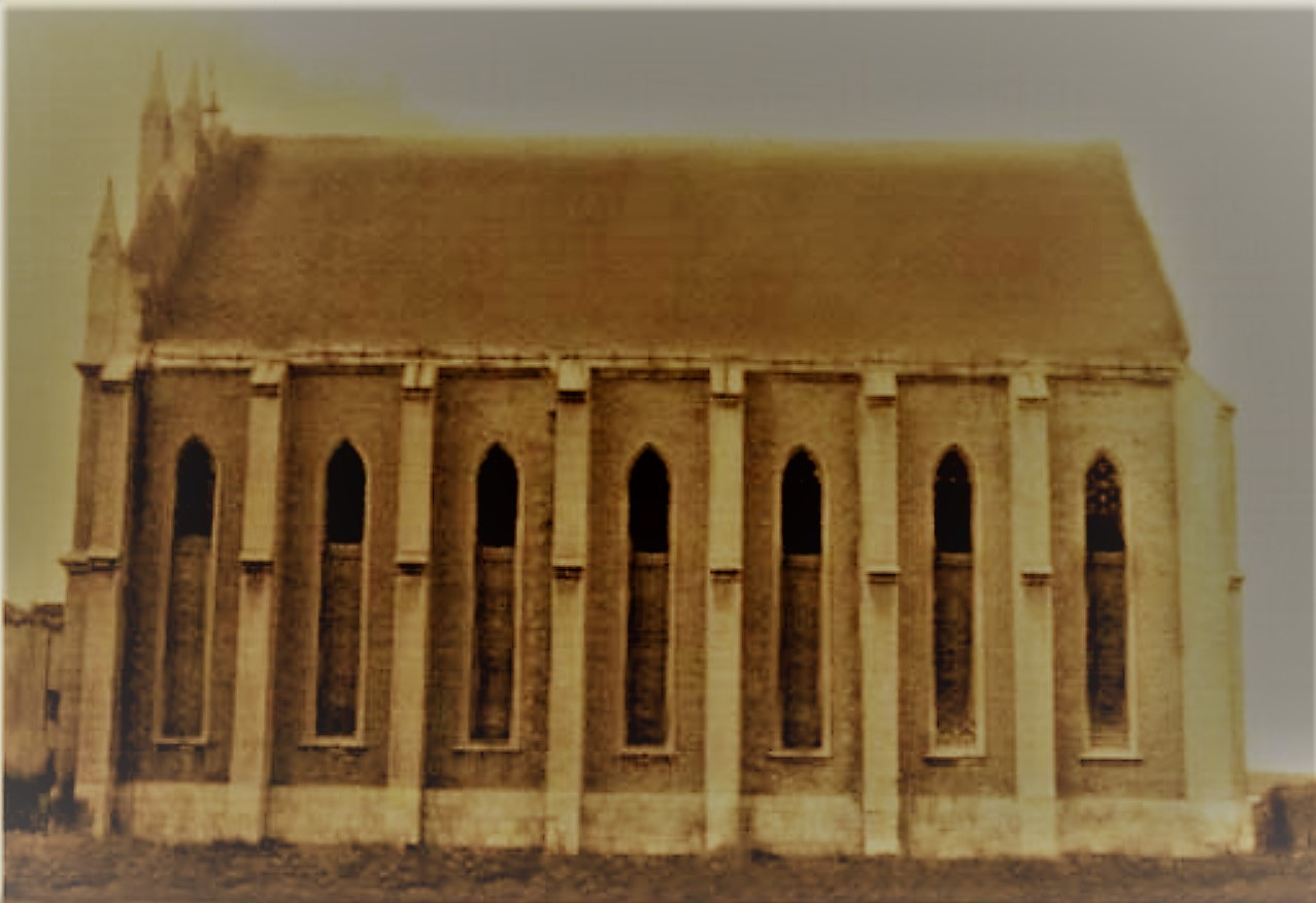 Spanish Temple, at 18 on Mircea Street in Constanța, Romania, 1911